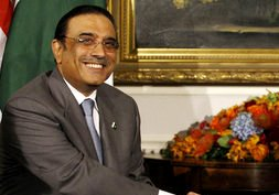 President Asif Ali Zardari of Pakistan, Tuesday, Sept. 23, 2008, at The Waldorf-Astoria Hotel in New York, United States